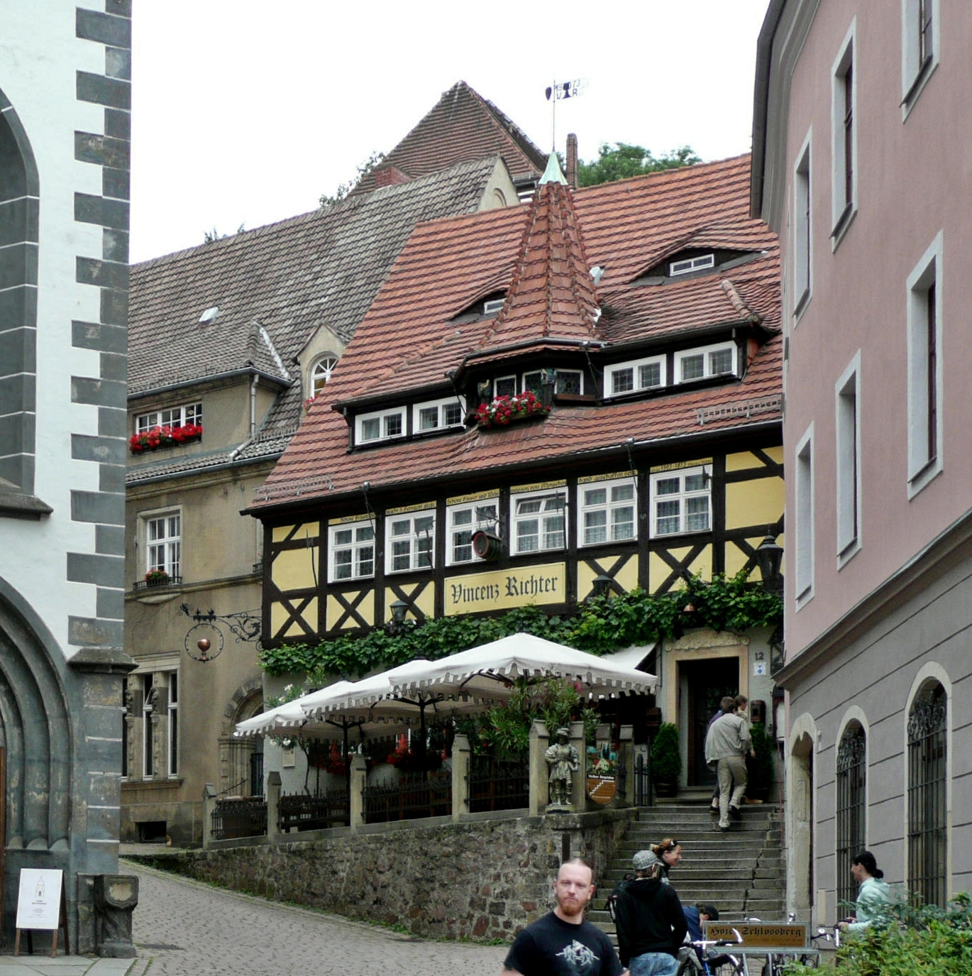 Meißen: the well-known wine-restaurant "Vincenz Richter" is situated in a former cloth makers´ guildhouse from 1523.